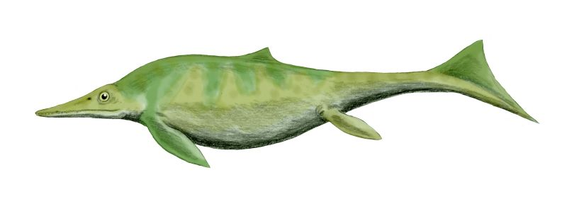 Californosaurus perrini, an ichthyosaur from the Late Triassic of North America, pencil drawing